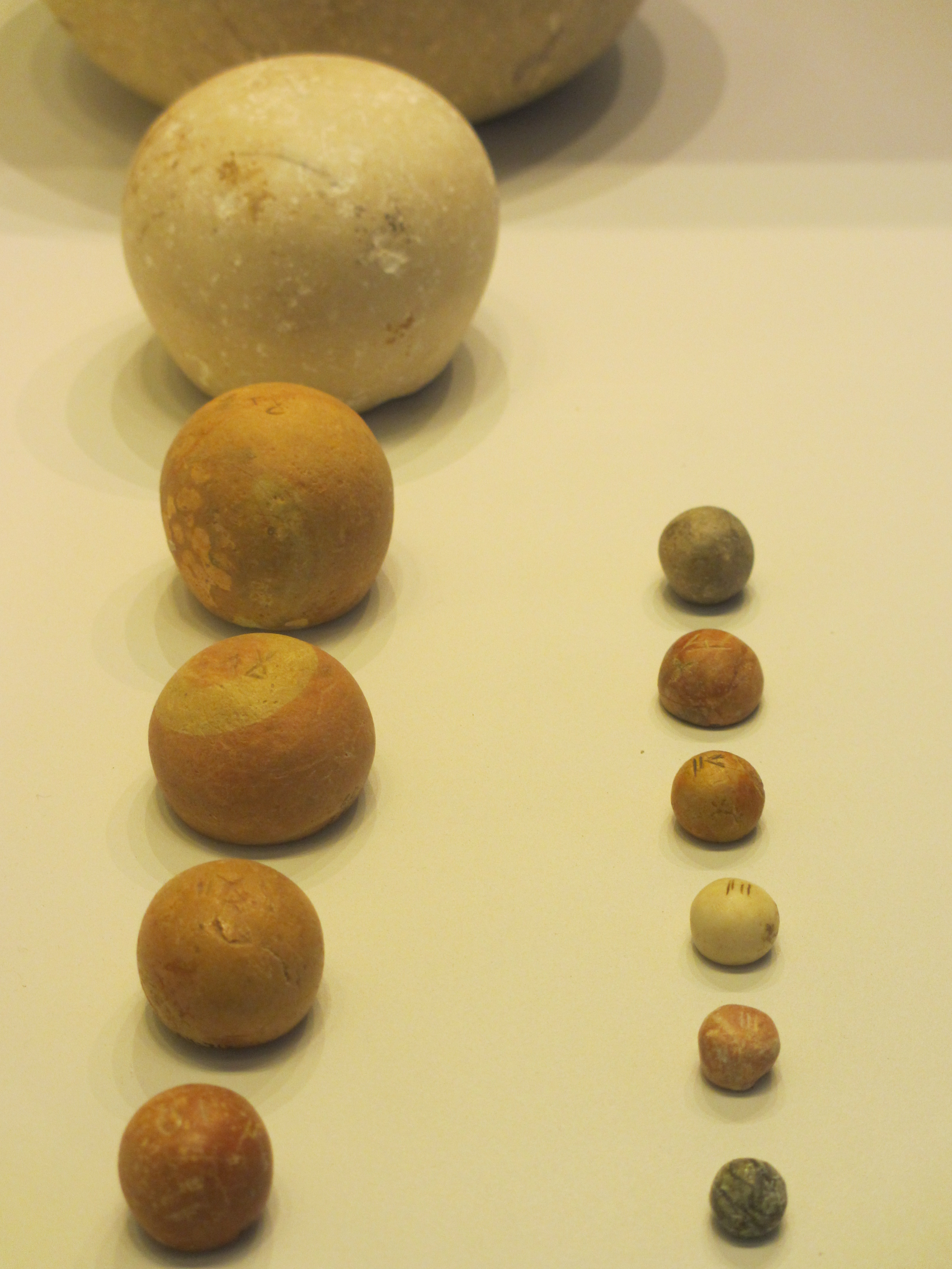 Judaean weights (8th-6th BCE) : 2, 3, 4, 6, 8, 10 gerah; 1, 2, 4, 8, 40, 400 shekel